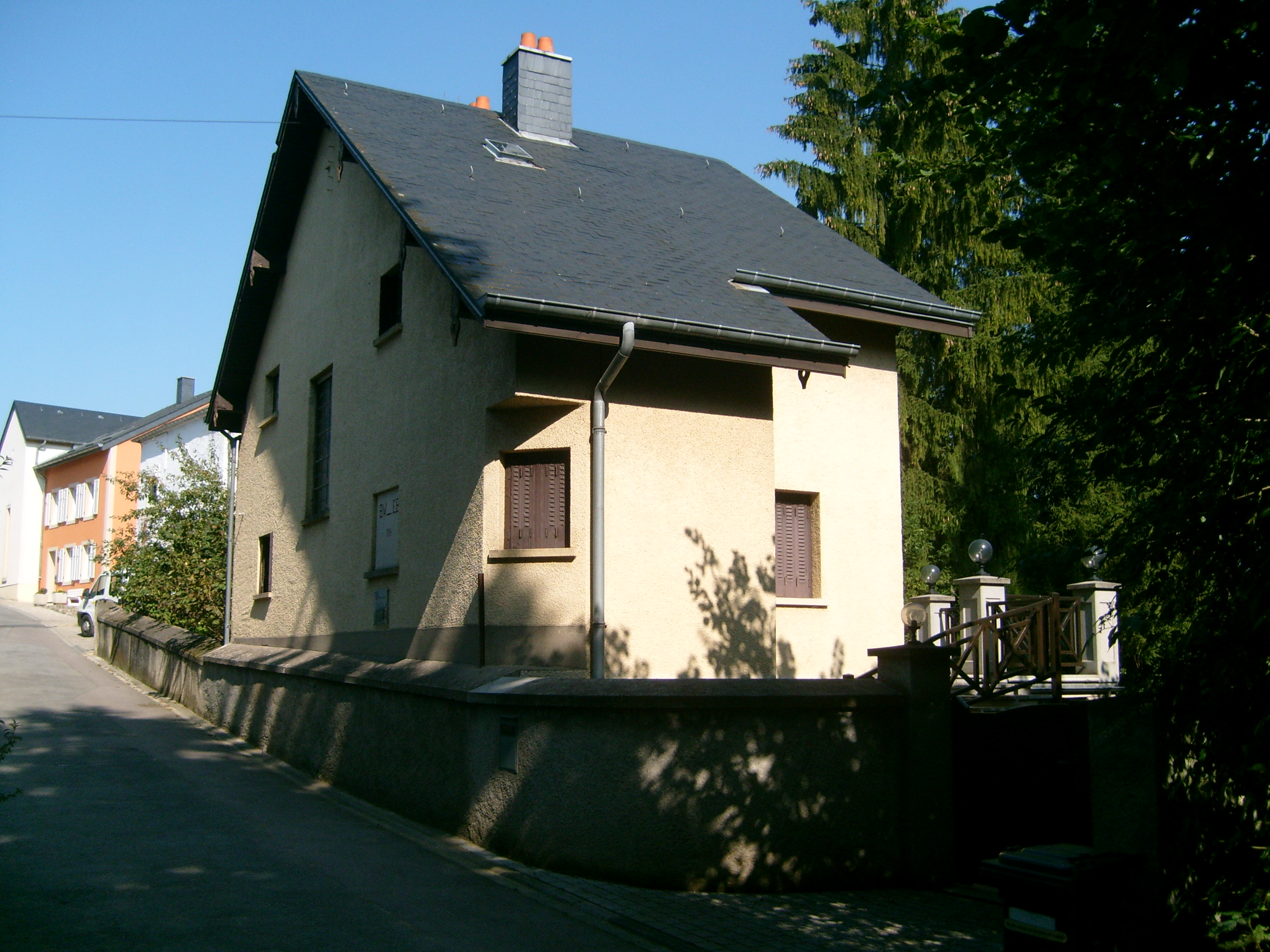 The house of Batty Weber named Haus Heemecht in Stadtbredimus, Luxembourg.